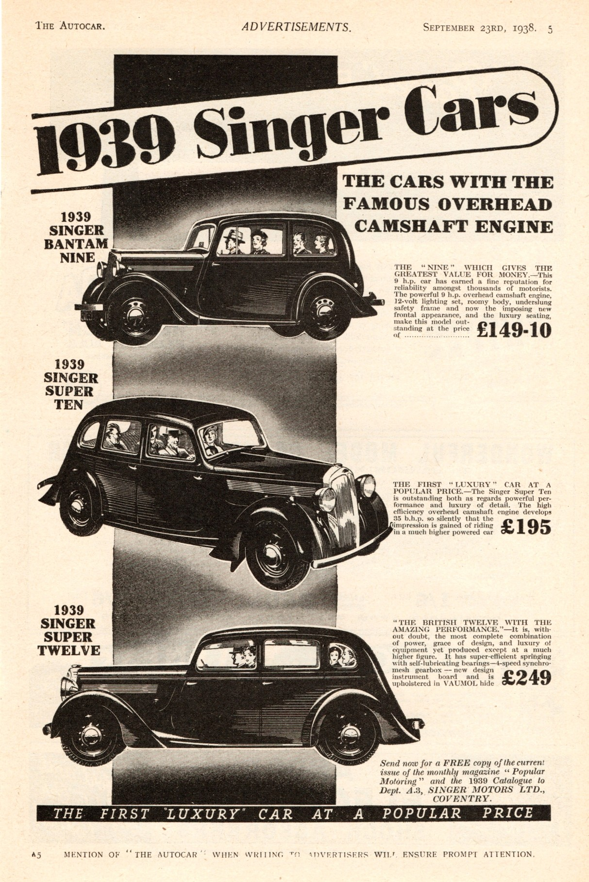 Singer Motors Ltd, display advertisement, The Autocar, September 23rd 1938